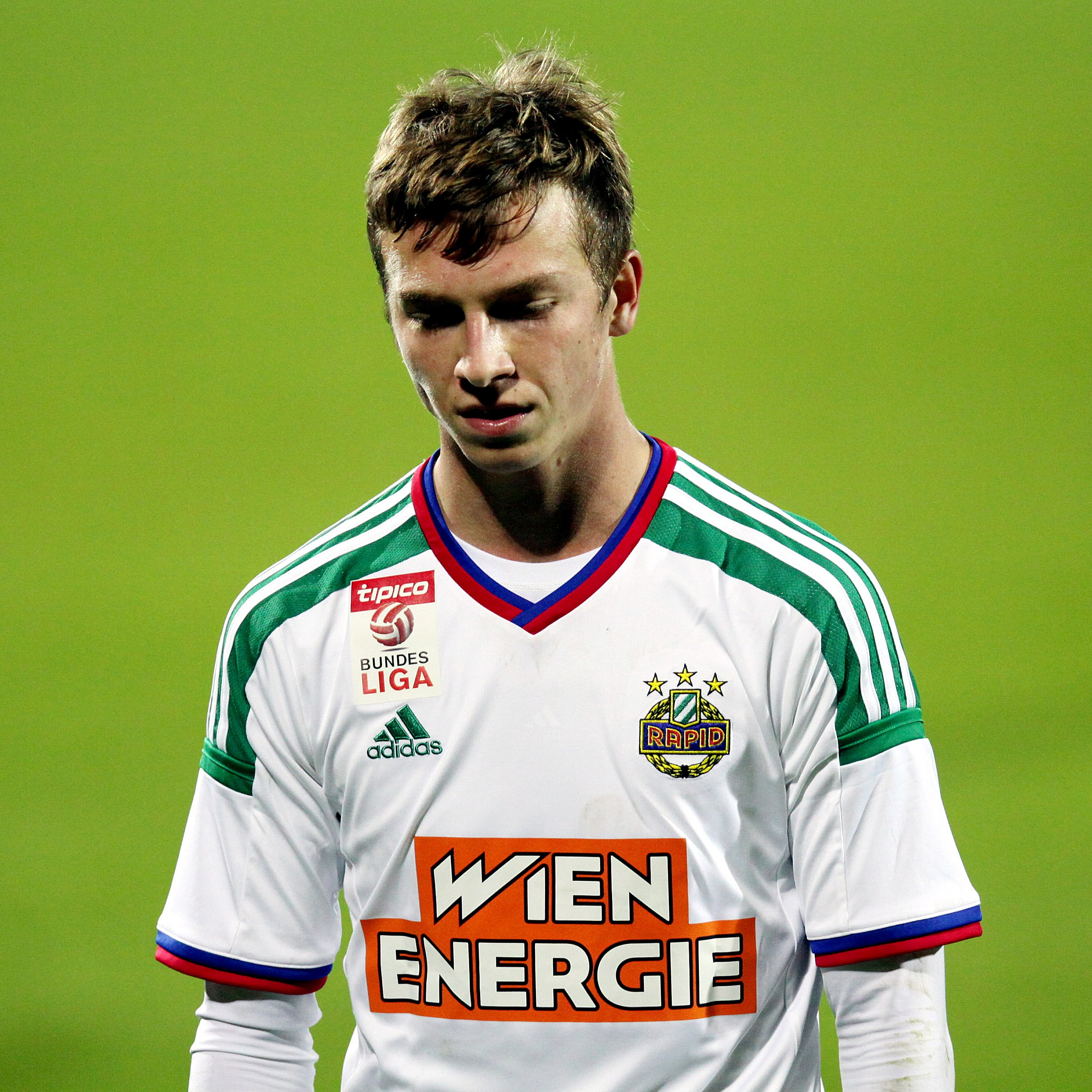 Match of the Austrian Football Bundesliga – SV Mattersburg (green shirts) vs. SK Rapid Wien (white shirts) 1-6 (0-5) at 2015-11-21 in Pappelstadion, Mattersburg – The photo shows Philipp Schobesberger (SK Rapid Wien).